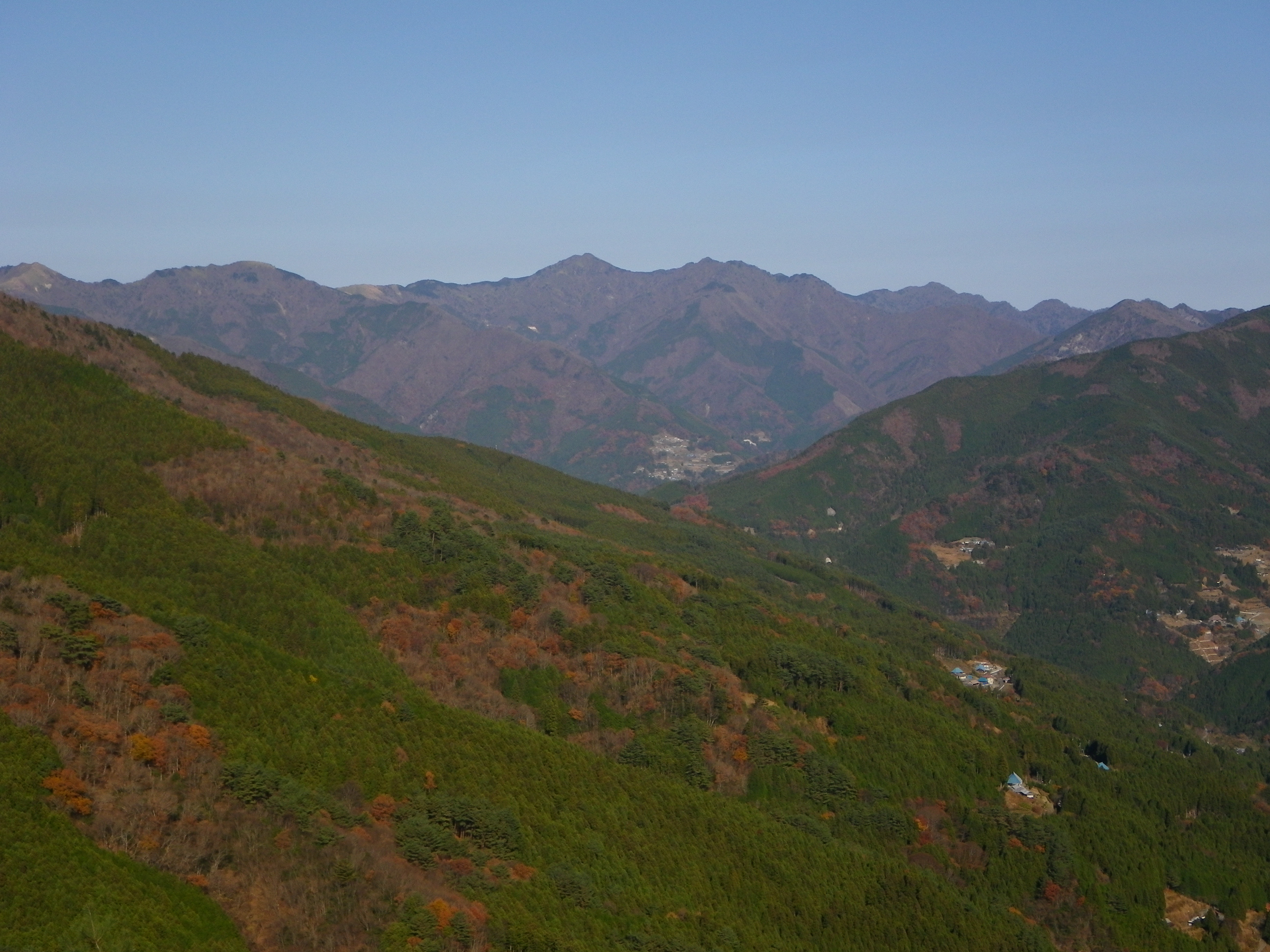 Mount Yahazu (Yahazu-yama) as seen from SSW in Tokushima Prefecture, Japan.